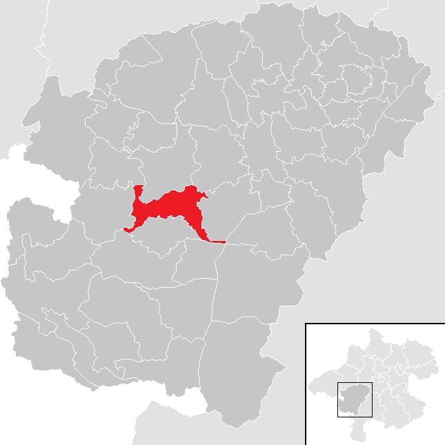 District Vöcklabruck